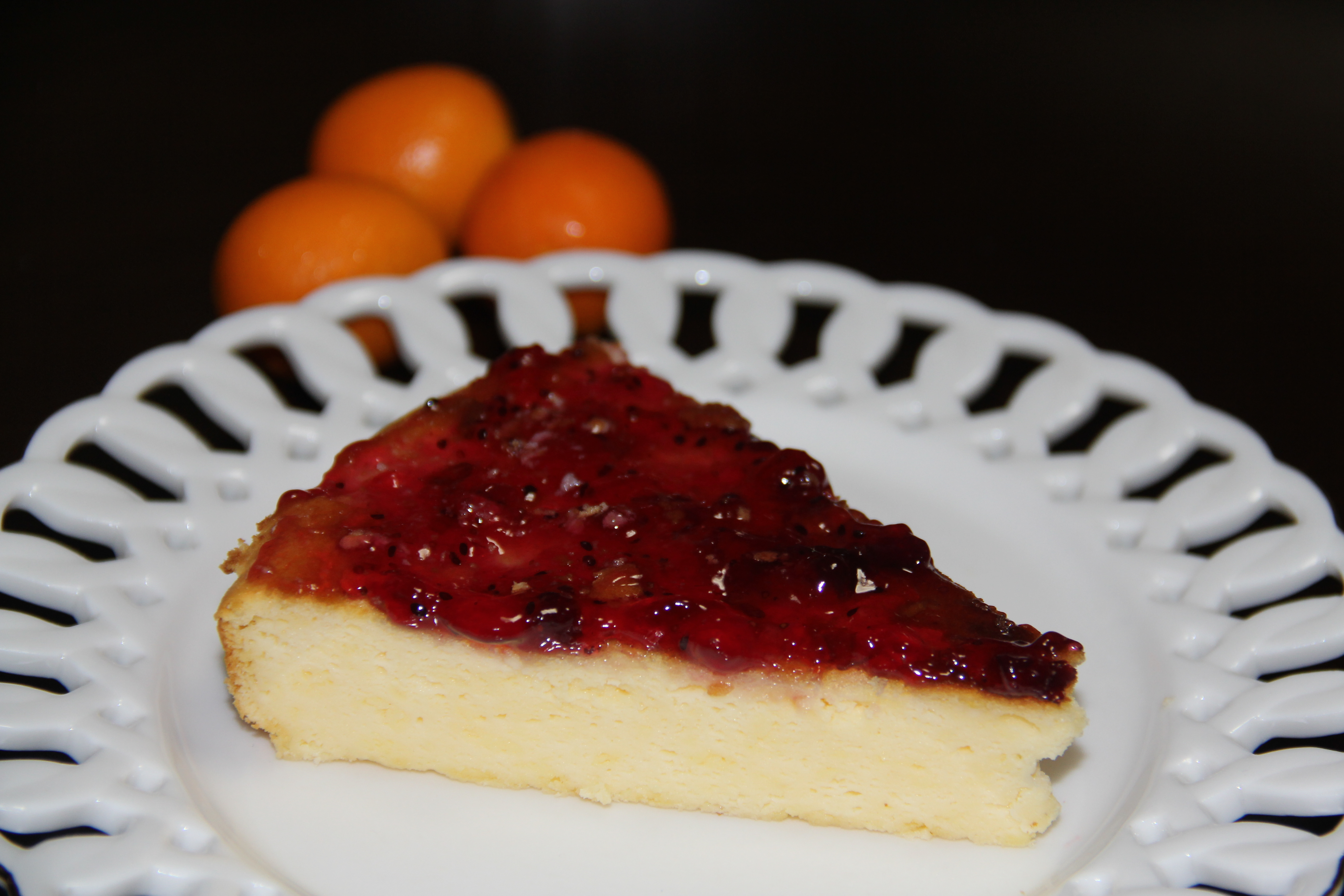 Macking cheese cake